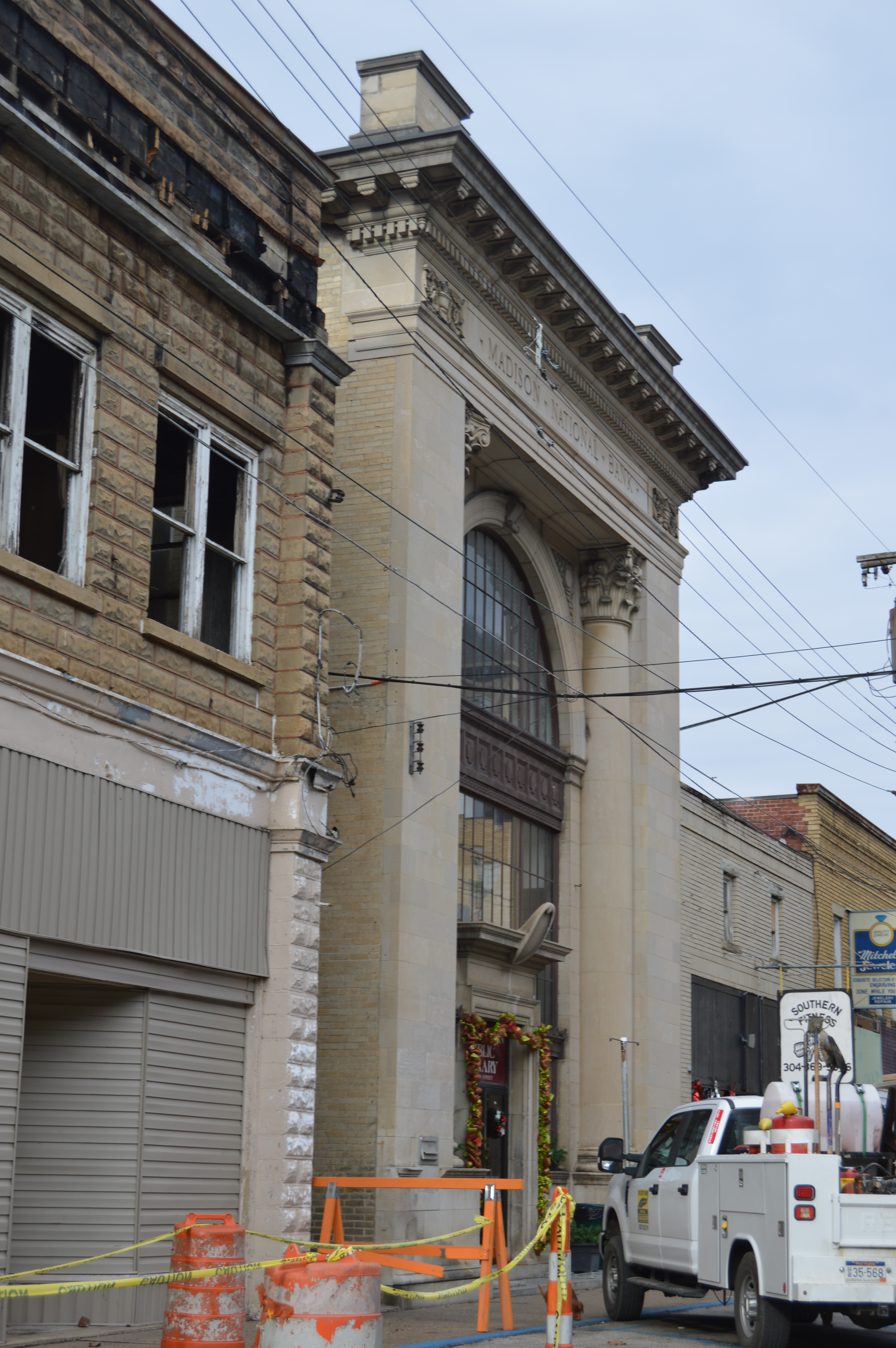 Front of the former Madison National Bank (now the local library), located at 375 Main Street in Madison, West Virginia, United States. Built in 1918, it is listed on the National Register of Historic Places.